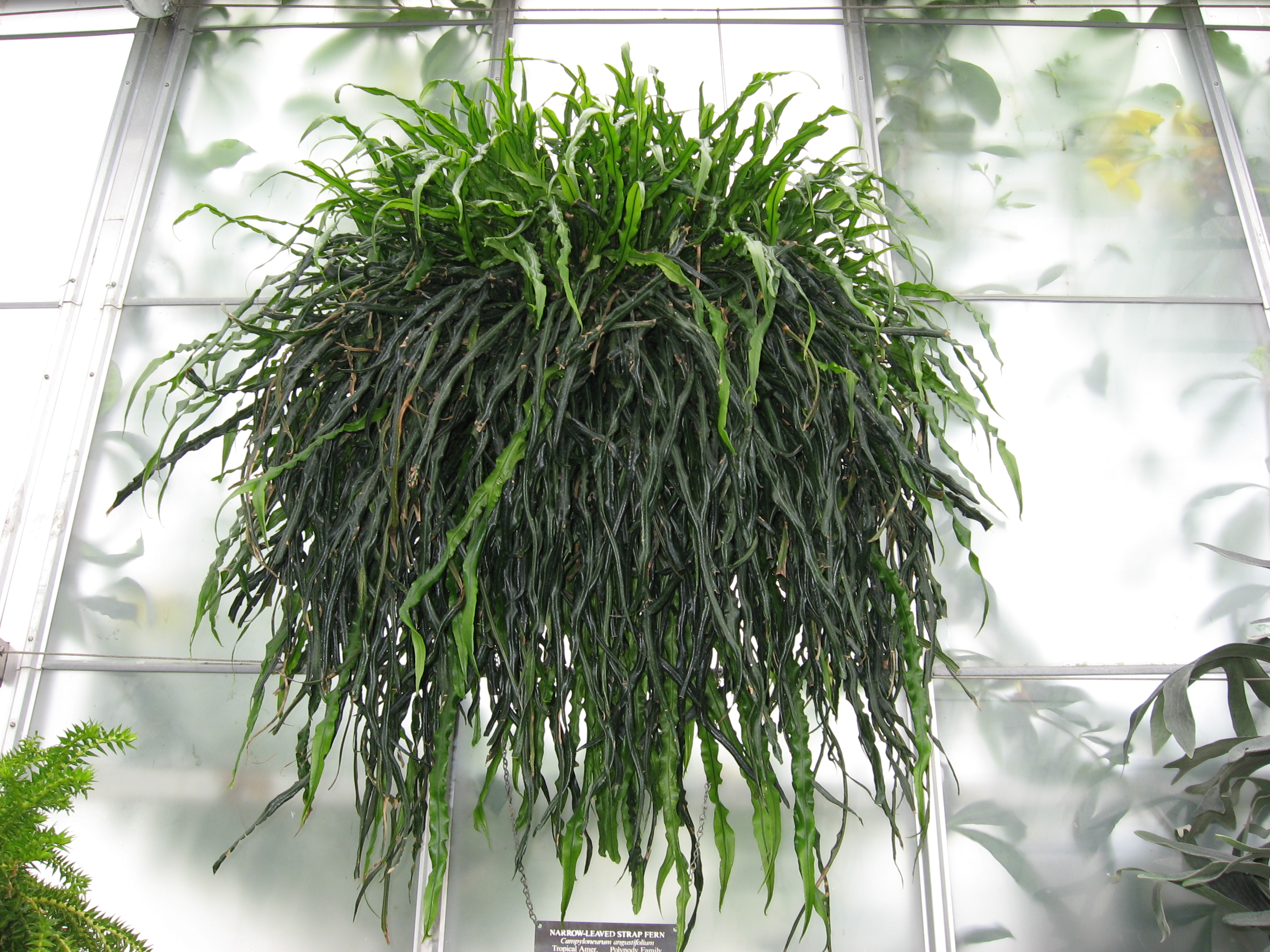 A picture of Campyloneurum angustifolium.